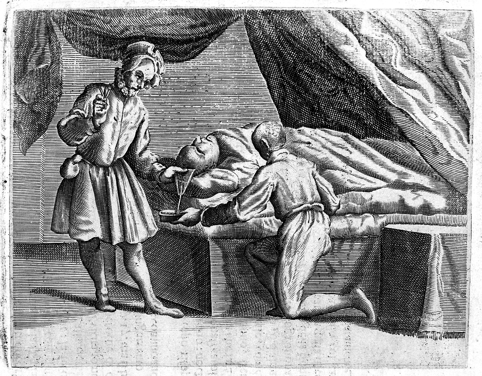 Bloodletting from the head Rare Books Keywords: Tibero Malfi